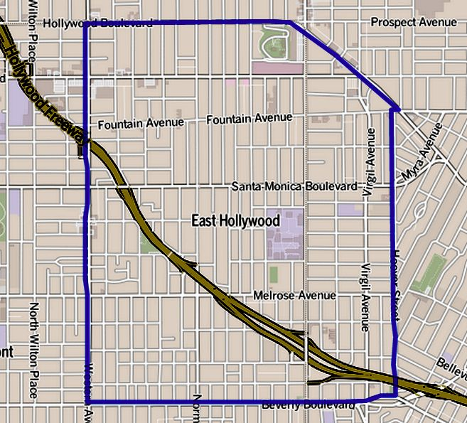 Map of East Hollywood, California, as outlined by the Los Angeles Times. Other information Boundary map as drawn by the Los Angeles Times on a CC-by-SA background. Note at bottom right of map on the L.A. Times website noted above says "CC-by-SA" (which gives permission to use the map). There is a link there to which explains the meaning thereof. The base map is credited to The Times spells all this out at